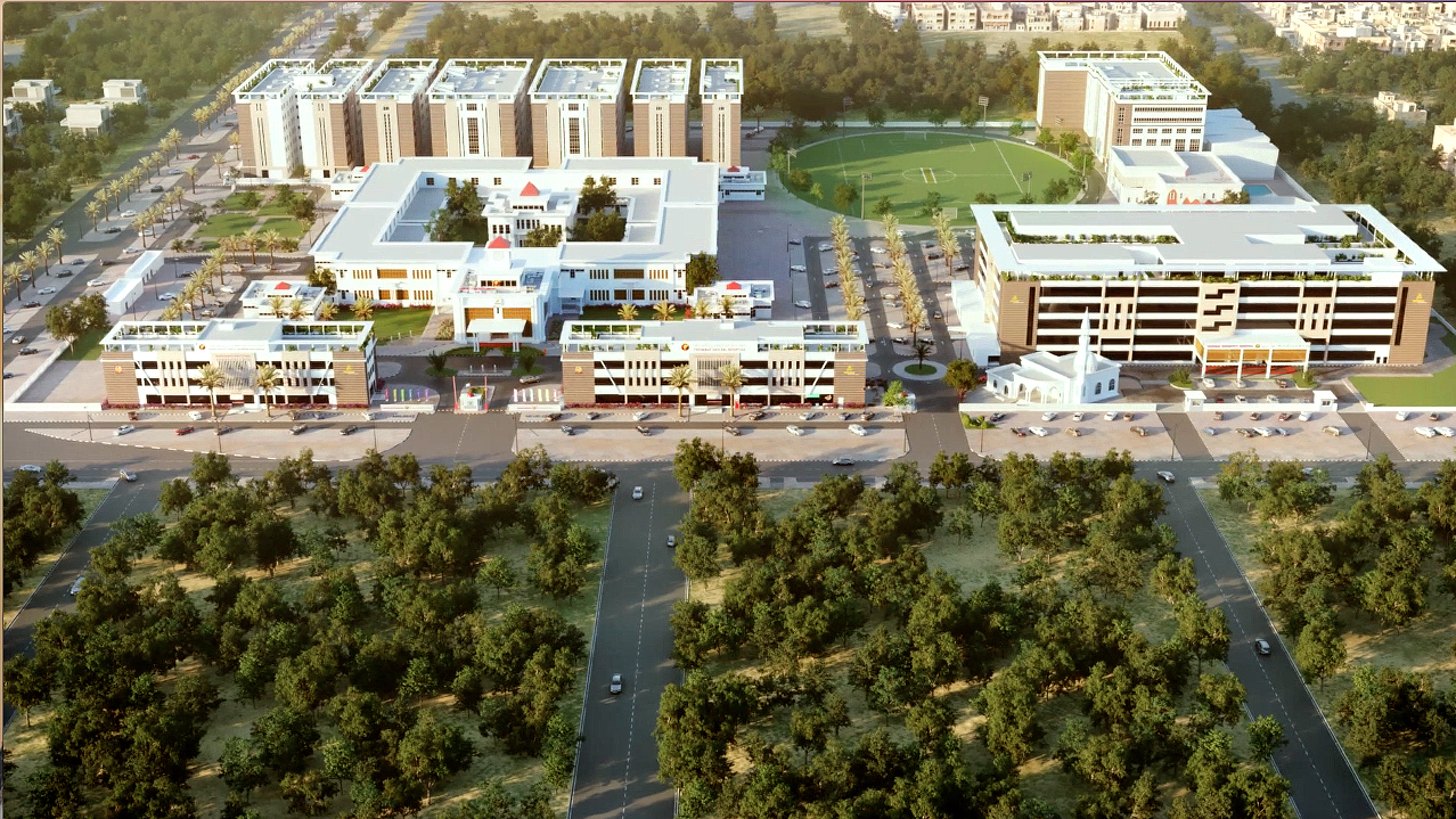 Thumbay Medicity, Ajman